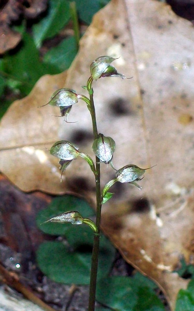 orchid flowering at Chatswood West, Australia. Probably Acianthus fornicatus. Brown dead leaf in the background is Schizomeria ovata